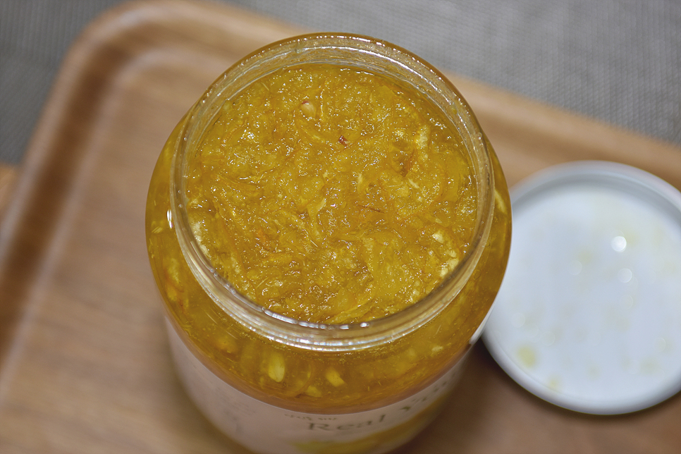 Yujacha (yuja tea)